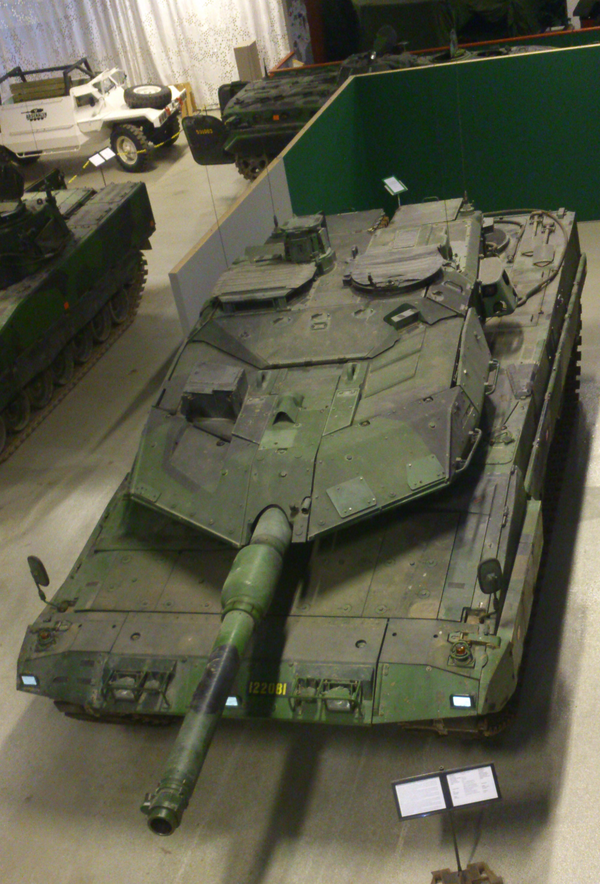 Original is File:Stridsvagn 122 03.jpg.